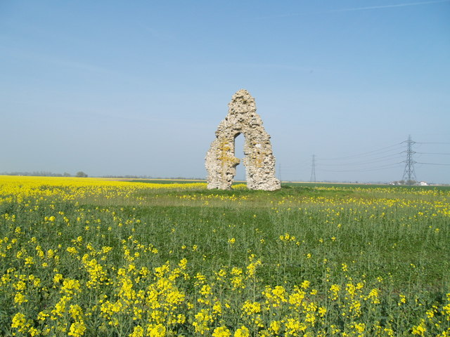 Ruined Chapel Romney Marsh The gable end is all that remains of an old chapel here